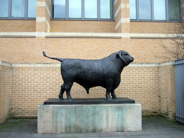 Oxford Ox, a bronze statue commissioned jointly by the City and University to stand outside Oxford railway station where it is seen by emerging travellers. It is by Olivia Savage, cost more than £40,000, and was unveiled in 2002. The building behind it is the Said Business School.